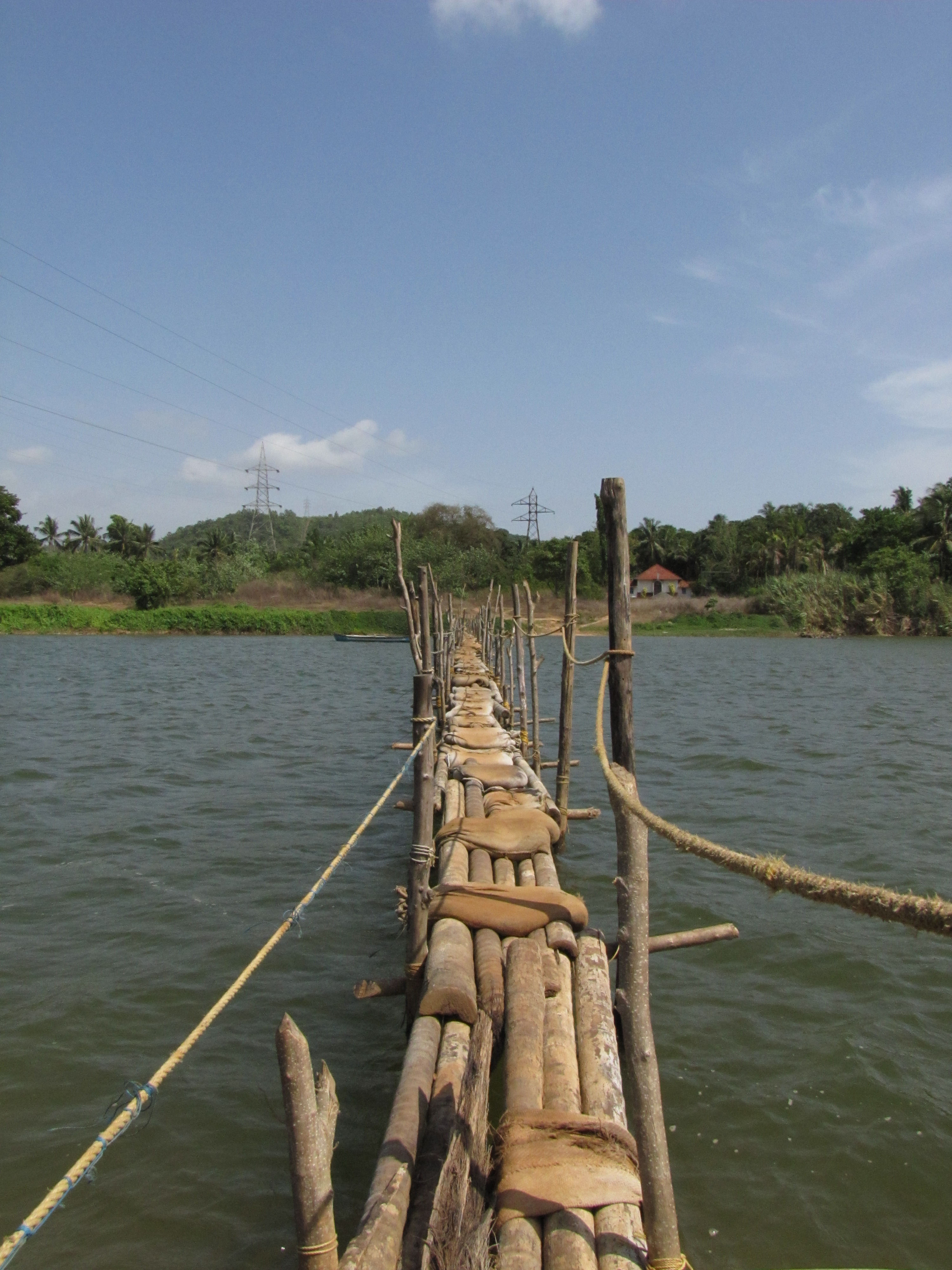 Bridge from Adyar side to Pavoor Uliya, a small Island in Nethravathi river, 12KM away from Mangalore